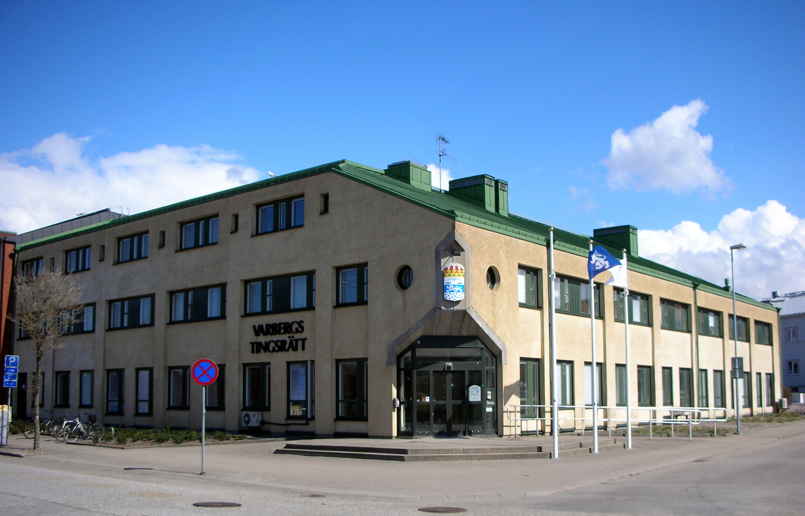 Varberg District Court, Varberg, Sweden.